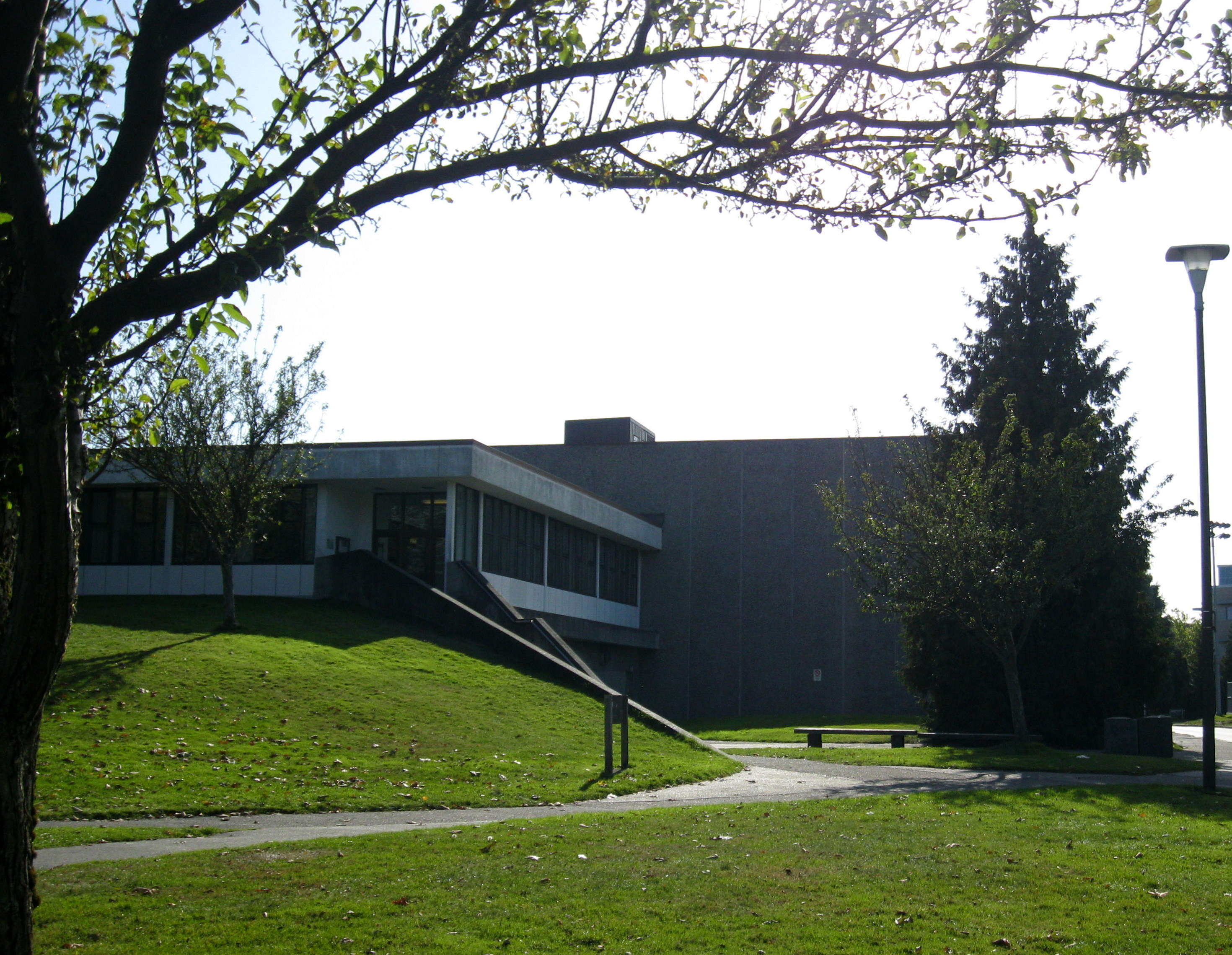 McKinnon Athletic building. READ INFO IN PANORAMIO/COMMENTS